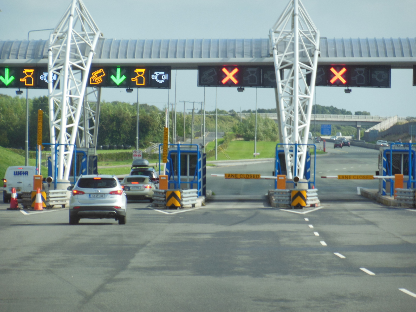 A view of the toll plaza on the M7 road in the Republic of Ireland